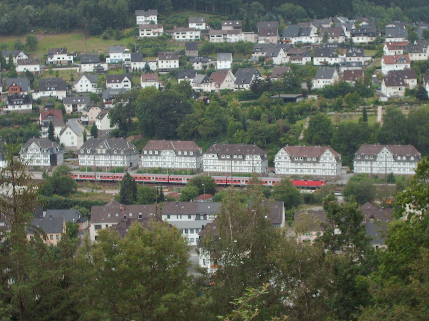 Ruhr-Sieg-Bahn leaves Lennestadt-Meggen station, Lennestadt, Germany check usage